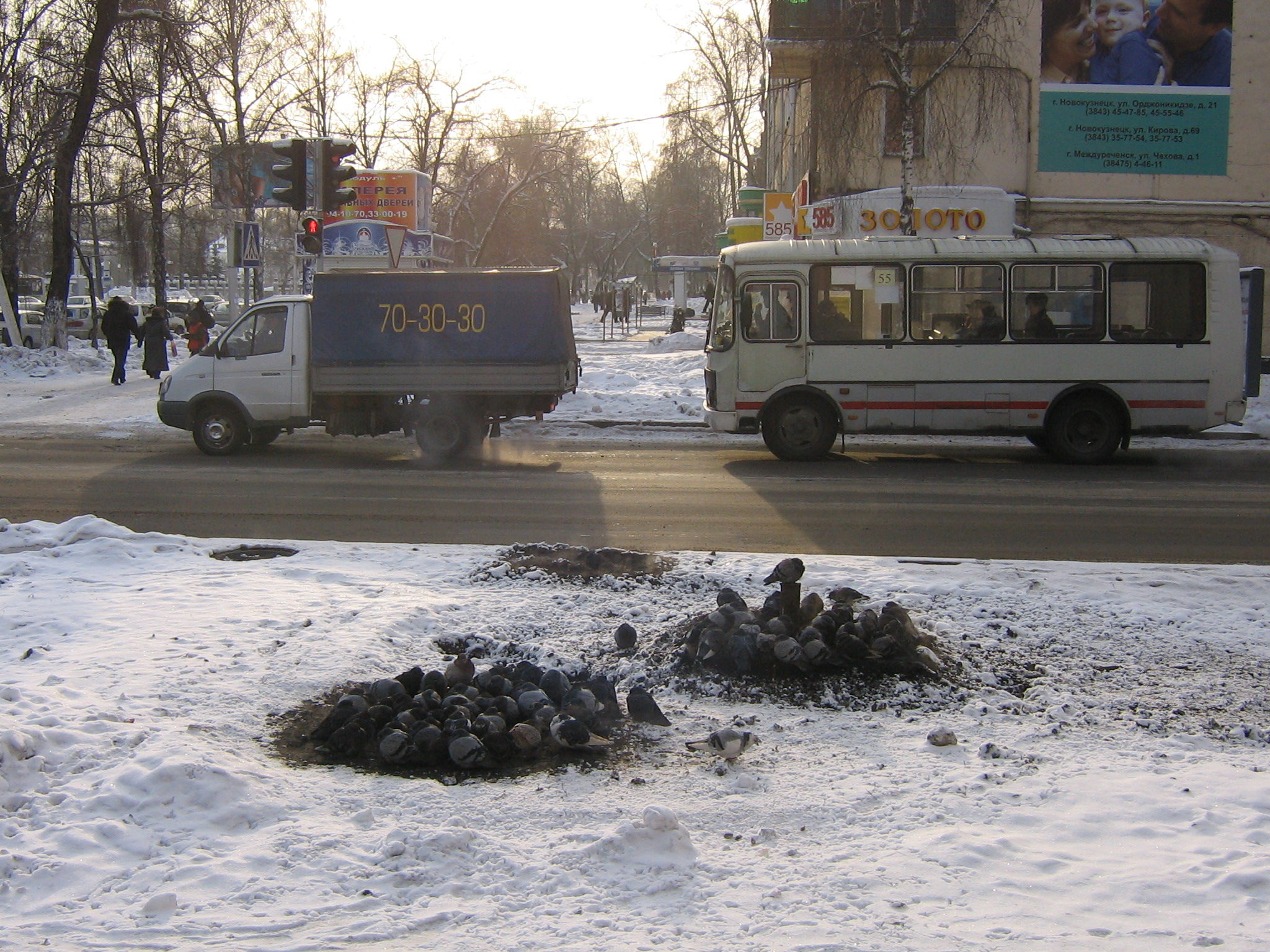 A cargo taxi-van and a private line bus in service, Kirova Street, Novokuznetsk, Kemerovo Oblast (Russia).